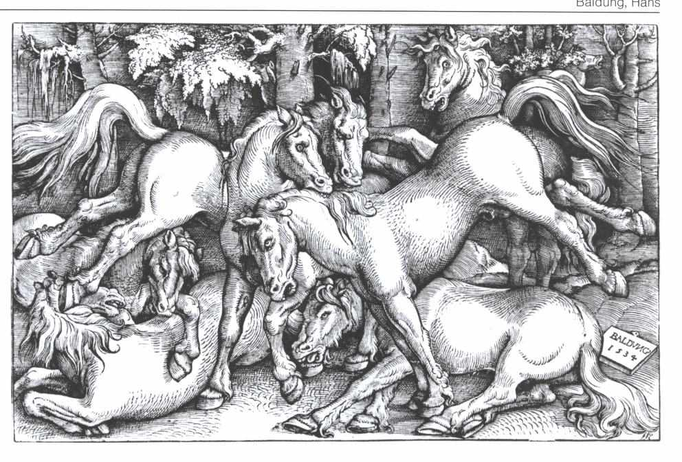 1 = Fighting horses